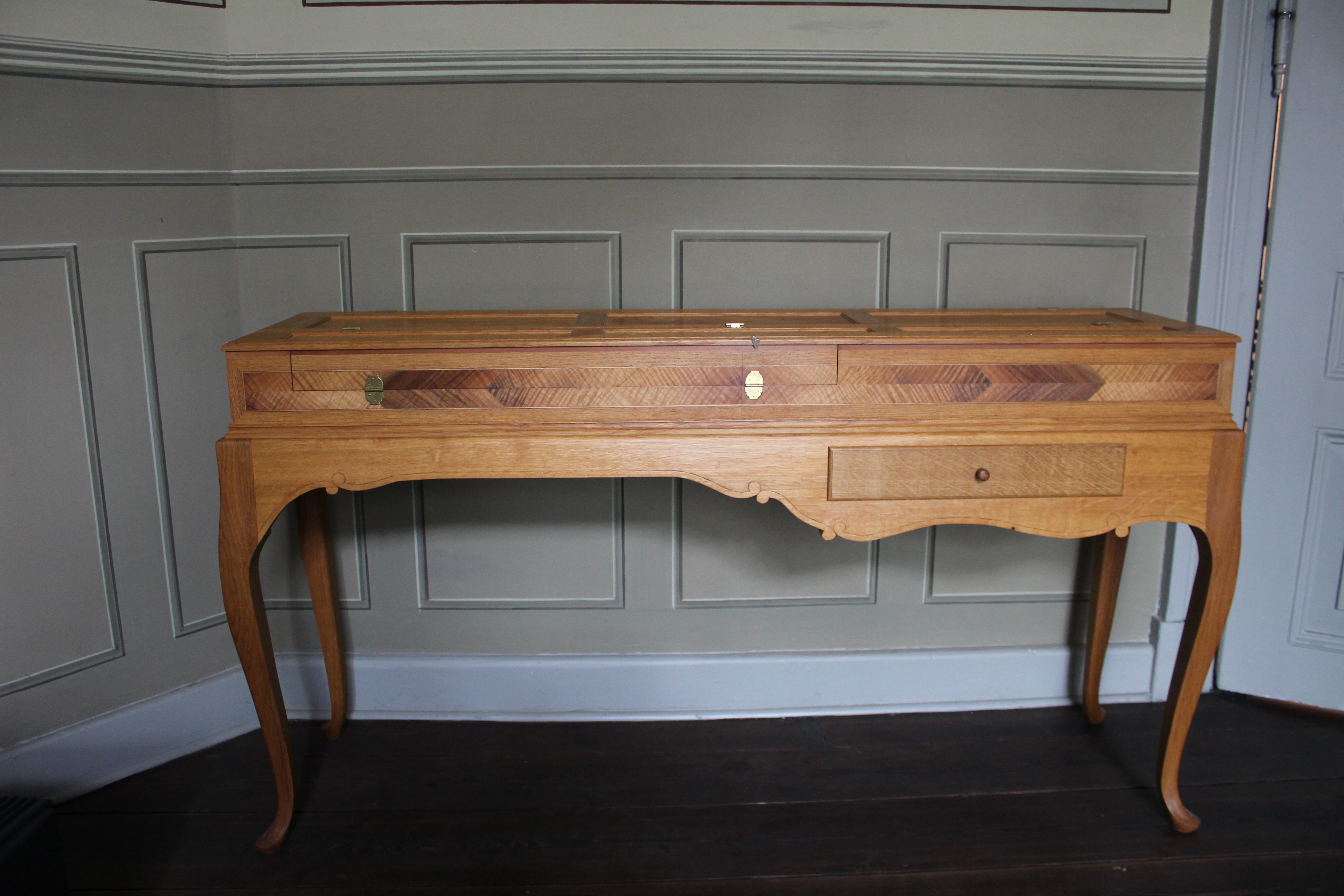 Clavichord built by Bergmann in Organeum in Weener, district of Leer, East Frisia, Germany